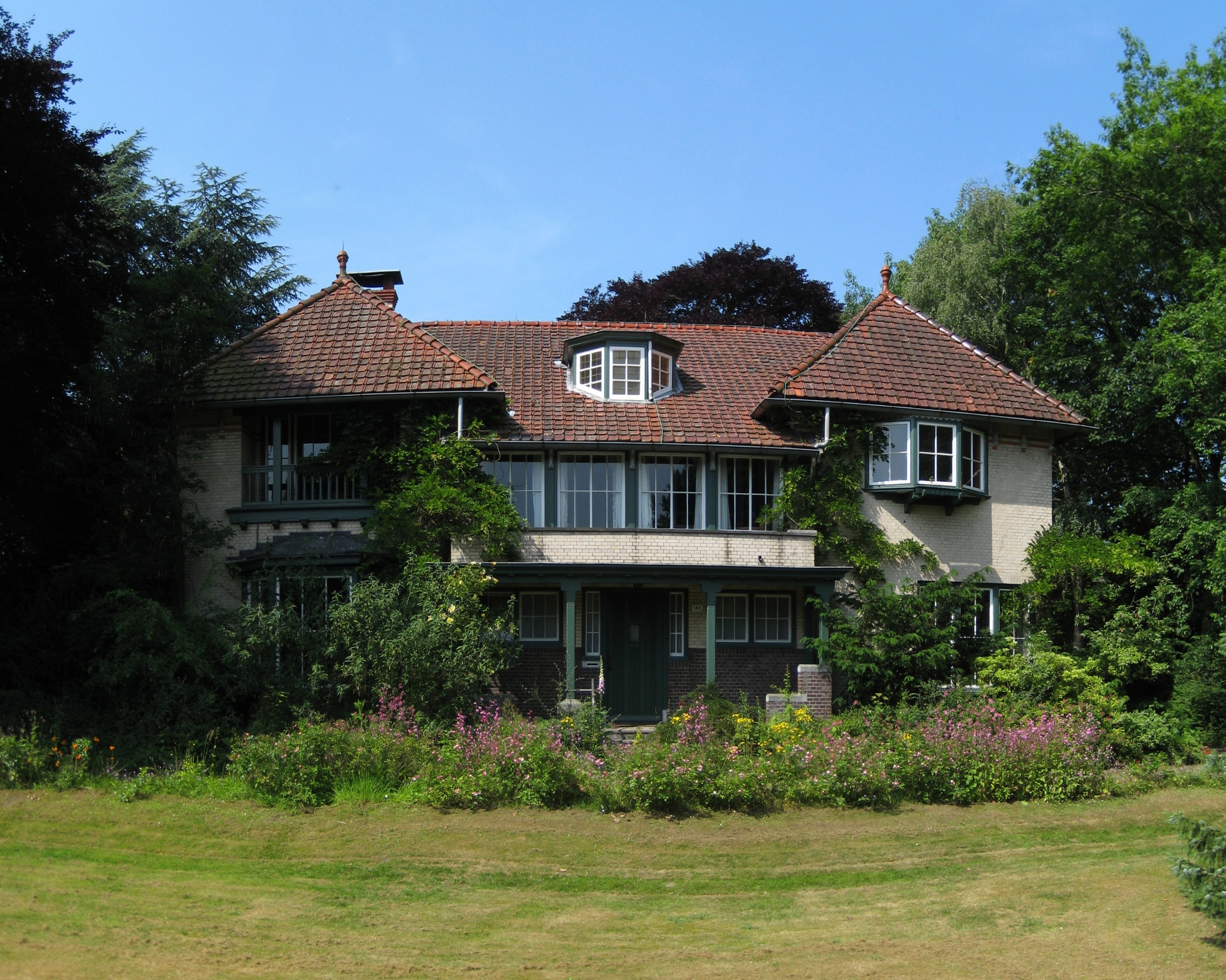 Villa Klein Toornvliet (1905) in the Dutch city of Groningen.